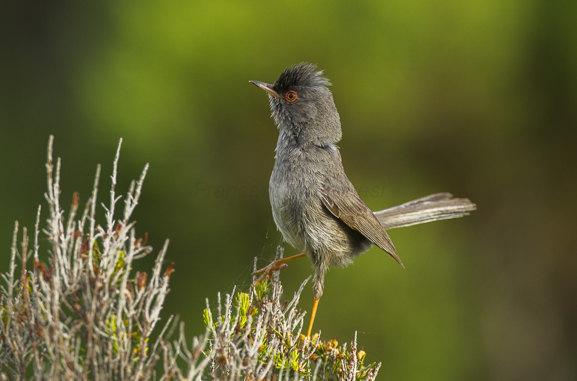 male Marmora's Warbler (Sylvia sarda) on Sardinia, Italy